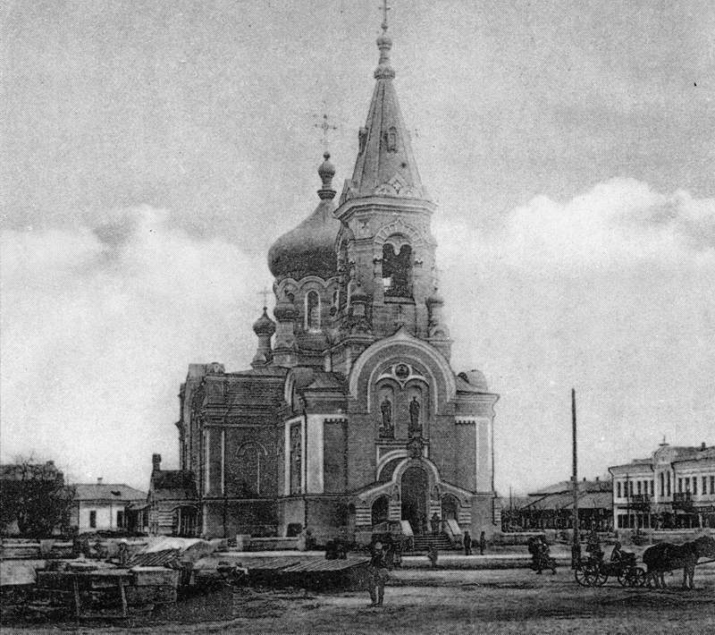 Alexander Nevsky Cathedral in Melitopol, Ukraine, early 20th century